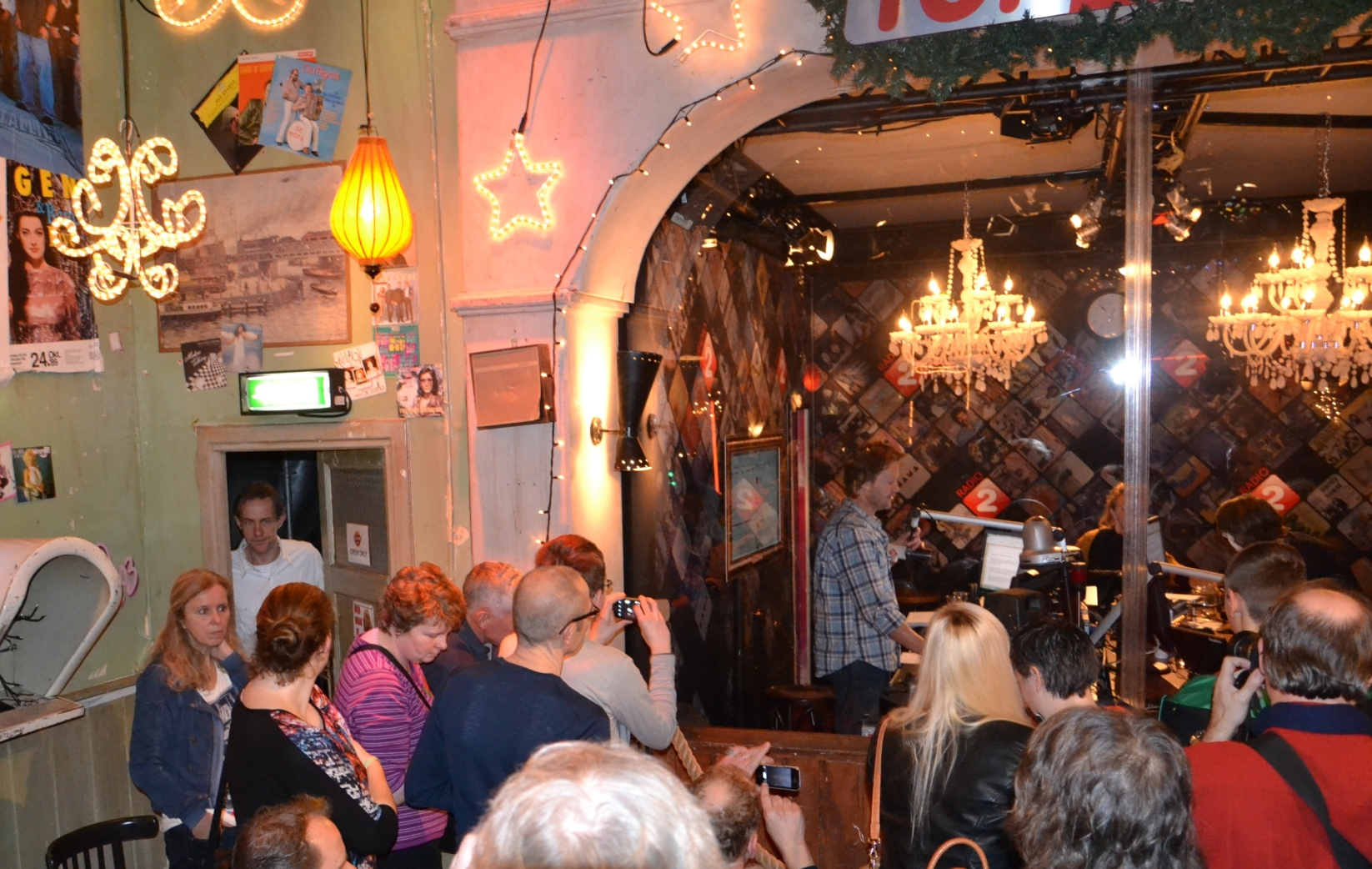 The Top2000 cafe in the Institute for Sound and Vision in Hilversum, the Netherlands.